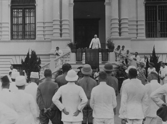 The speech of mayor Mackay at the townhall of Medan on occasion of the arrival of the first commercial flight from Holland to Batavia.